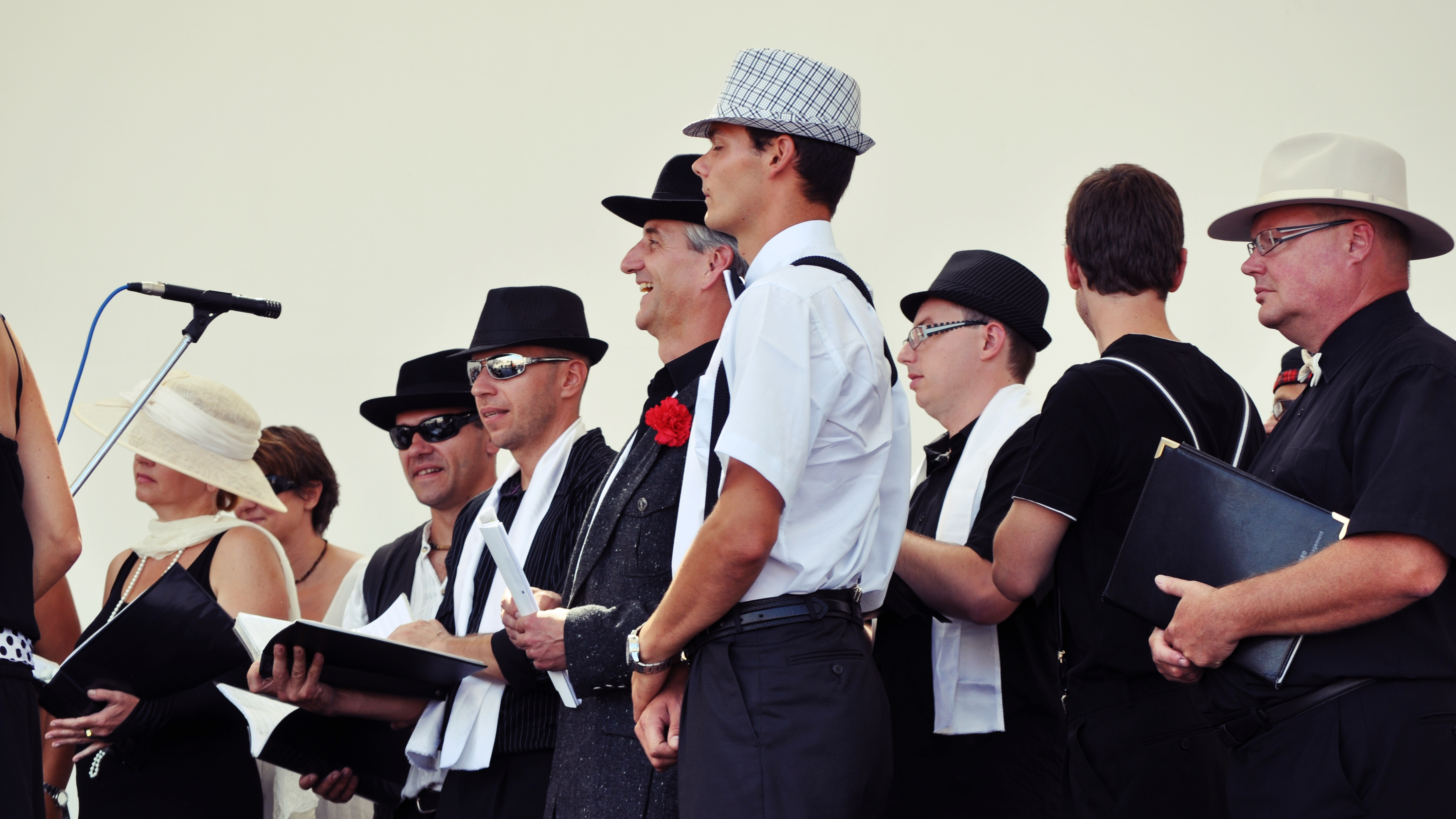 Zesrandy choir performing on Kroměříž Main square